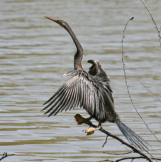 Darter Anhinga melanogaster at Bharatpur, Rajasthan, India.